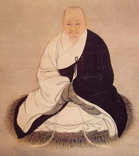 Portrait of zen master Zibo Zhenke